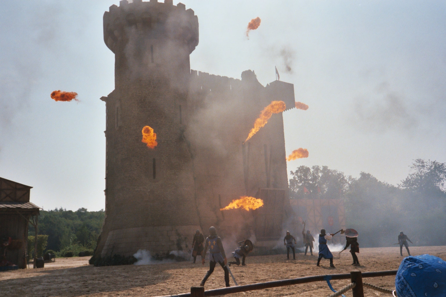 Theme park of Puy du Fou